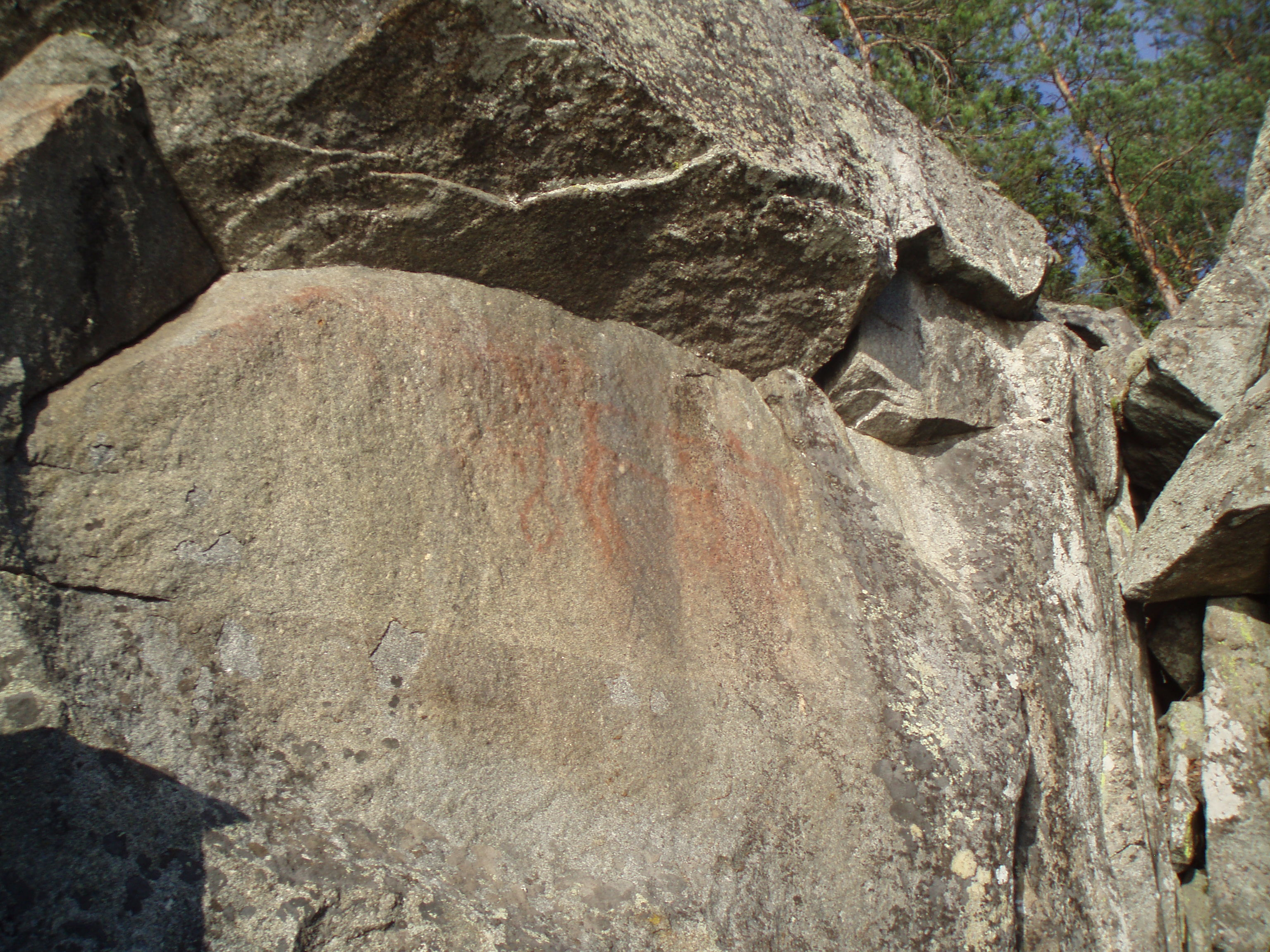 Cave painting in Vierunvuori (Kolovesi national park, Finland)